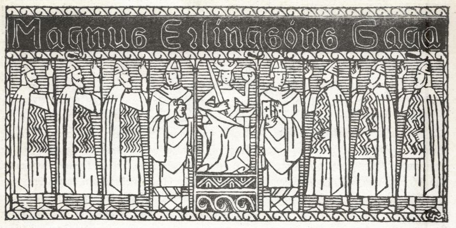 Gerhard Munthe: Illustration for Magnus Erlingssons saga, Heimskringla 1899-edition. Tittelfrise.